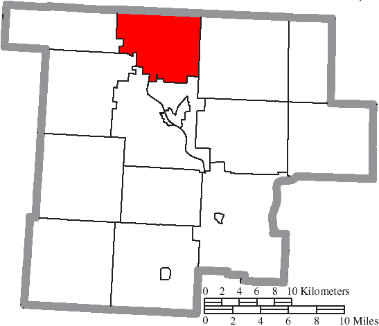 Map of the municipal and township boundaries of Morgan County, Ohio, United States, as of the 2000 census, with the location of Bloom Township highlighted. Township borders are shown only in unincorporated areas in order to differentiate incorporated and unincorporated areas more clearly.